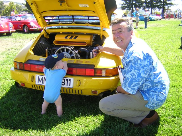 Taken by: Jacob Bayless, owner. Submitted by Jacob Bayless.